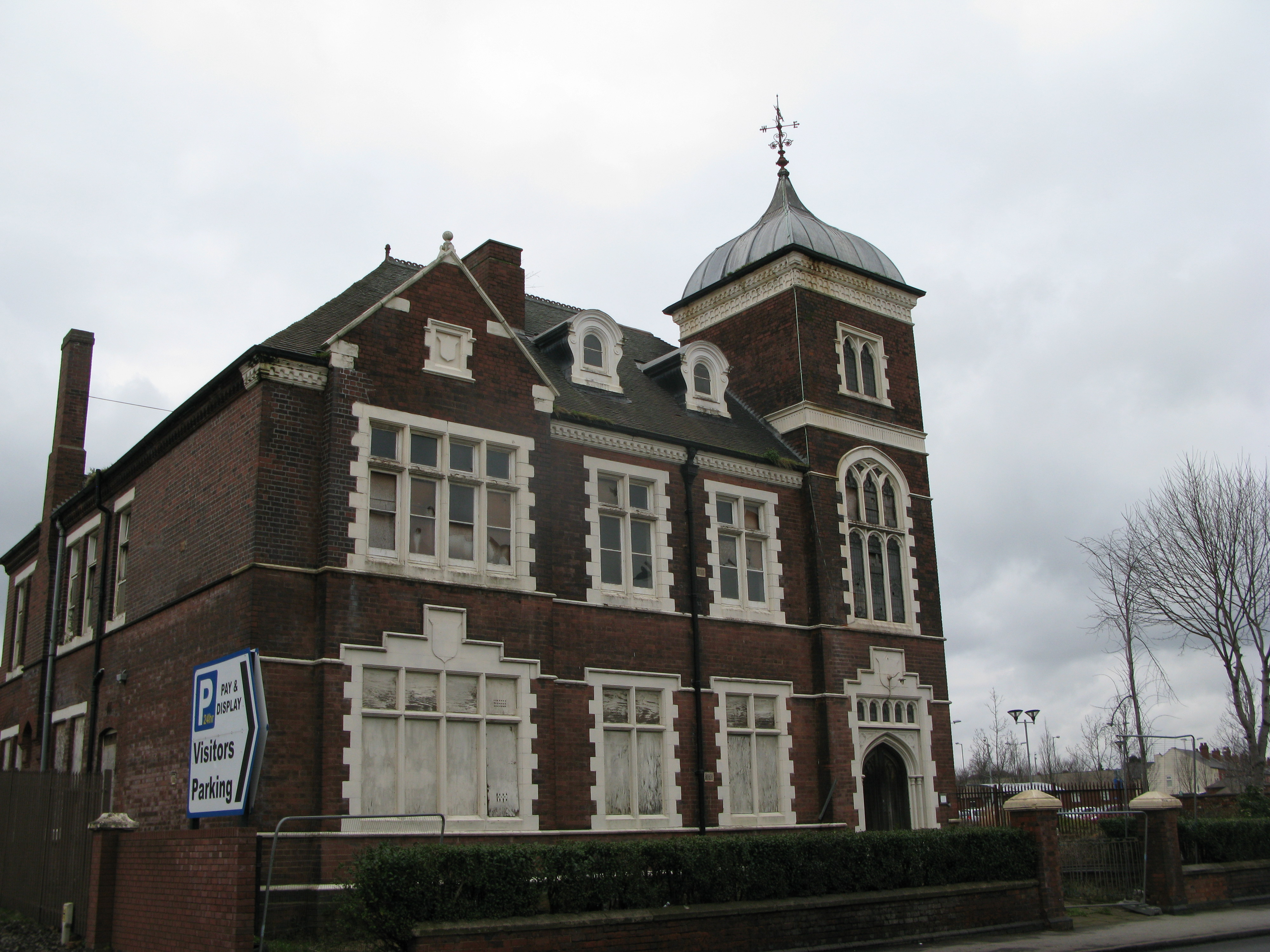 Grade II